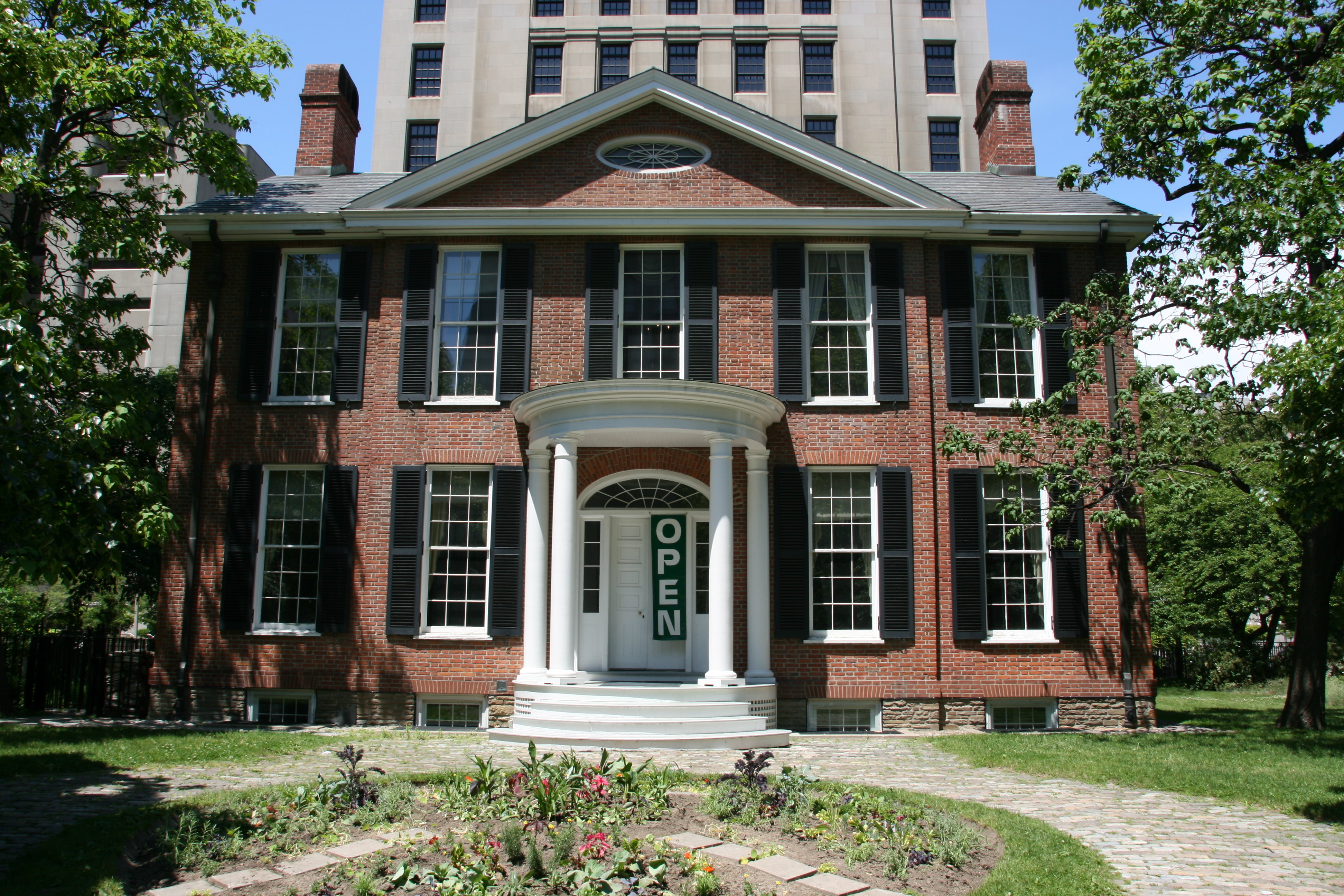 Campbell House, Queen Street West, Toronto.